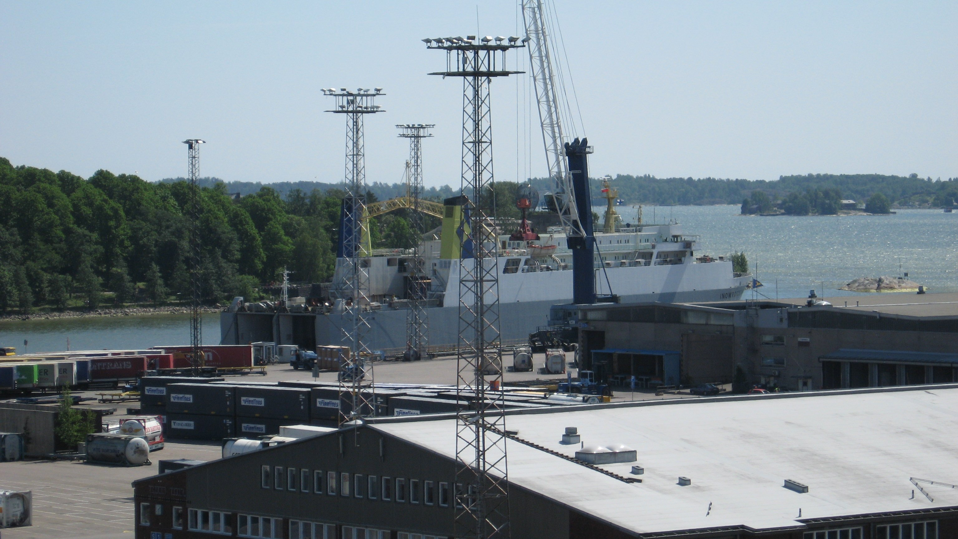 Polish cargo ship M/S Inowroclaw in Helsinki, Finland. IMO Number: 7804053 MMSI Number: 261145000 Callsign: SQKS Length: 137 m Beam: 23 m